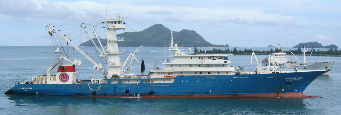 Cropped version of Image:Albatun Dod.jpg, Tuna Purser ALBATUN DOS - Port Victoria harbour - Seychelles Islands. IMO number: 9281308 Callsign: ECEM